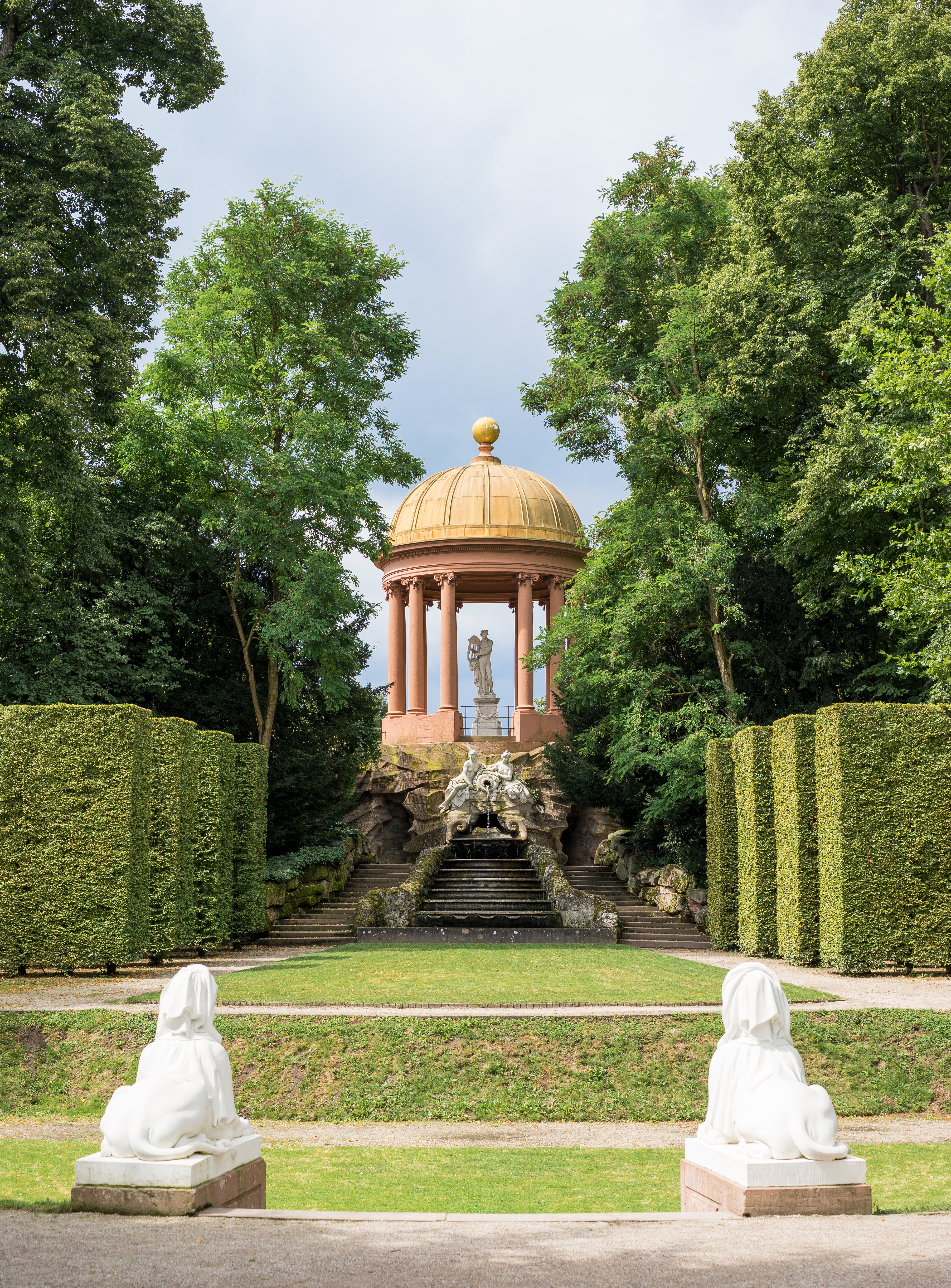 Garden of Schwetzingen Palace, Schwetzingen, Germany: View from the little Garden theatre to the Temple of Apollo.